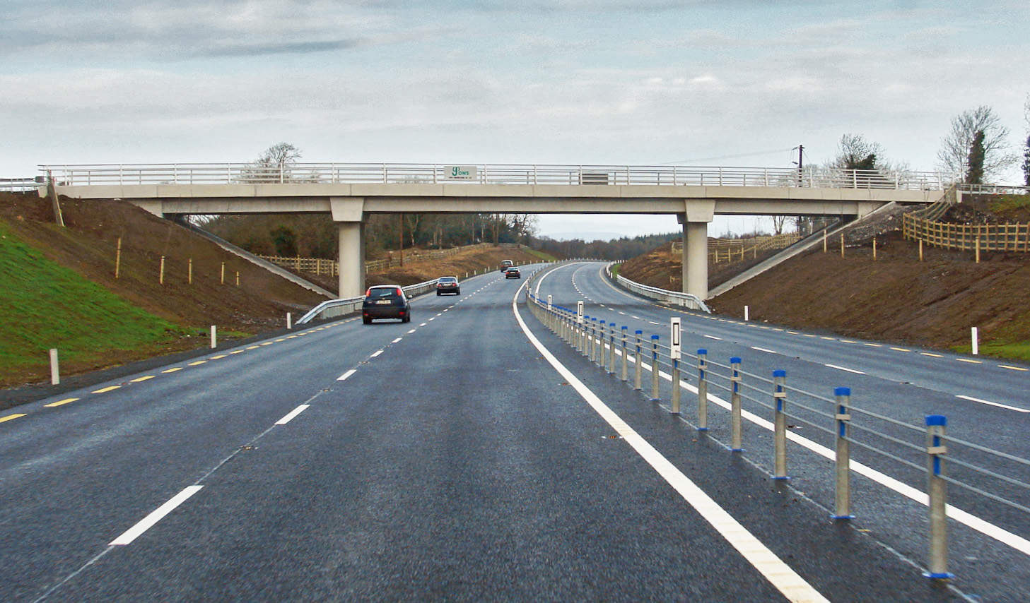 "N4 Dromad/Roosky section."